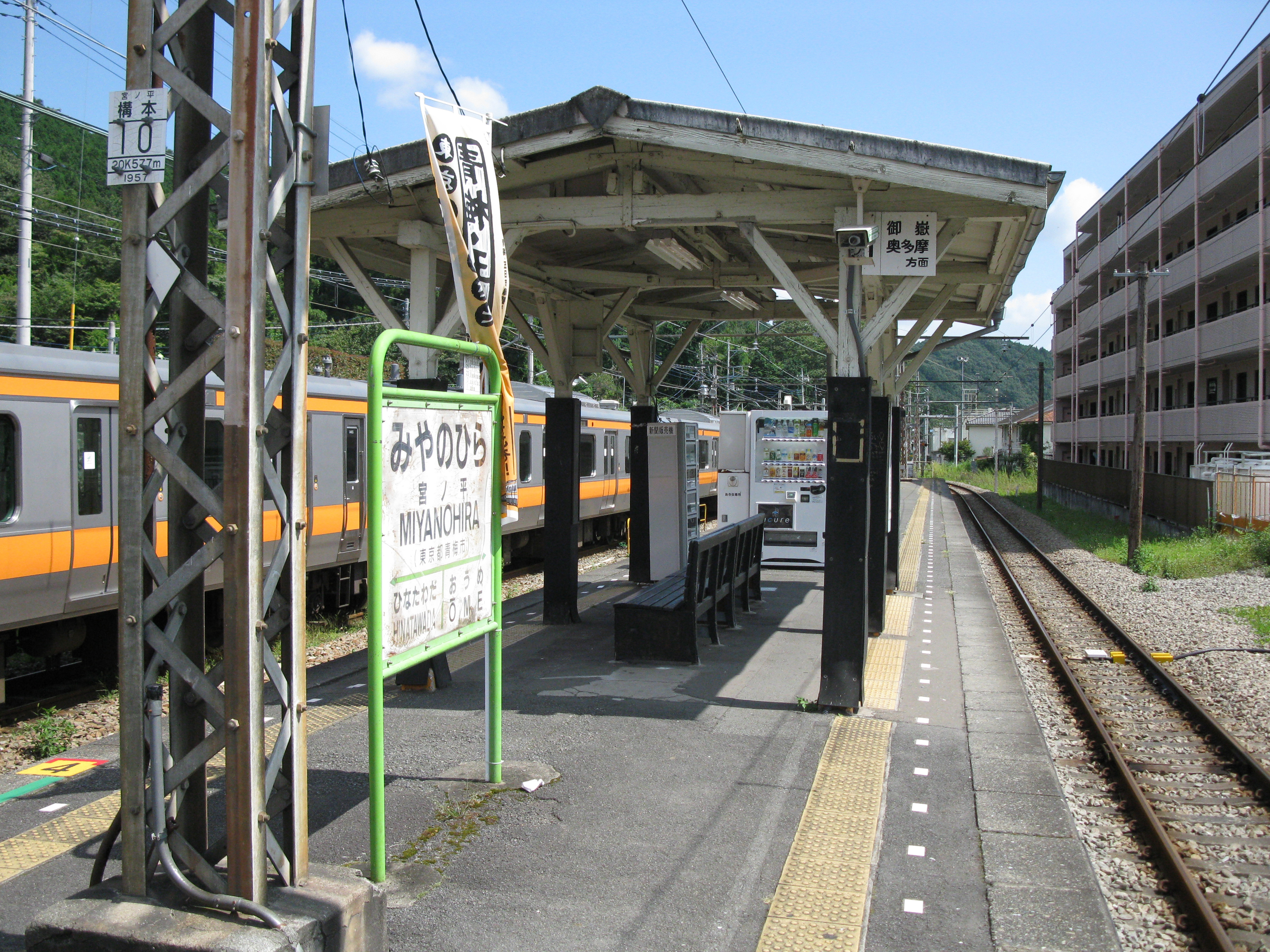 Miyanohira Station platform (East Japan Railway Ōme Line)